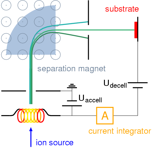 Schematics of an mass separating implantation/deposition setup. Ion energy at the substrate is determined by the difference of Uaccell and Udecell. Image created using Tgif.